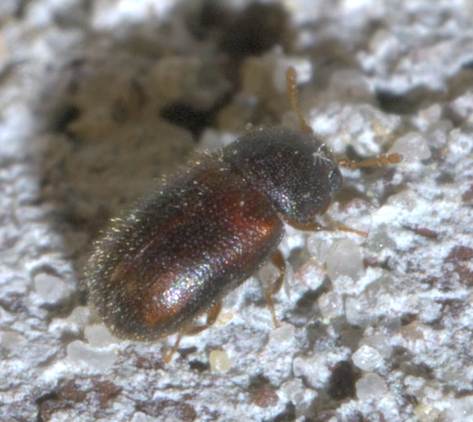 Sphindus americanus, Genus: Cryptic Slime Mold Beetles, Size: 2.1 mm, ID Confidence: 98